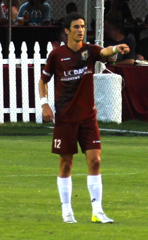 Nemanja Vukovic playing for Sacramento Republic FC in a USL Pro match against Orange County Blues.